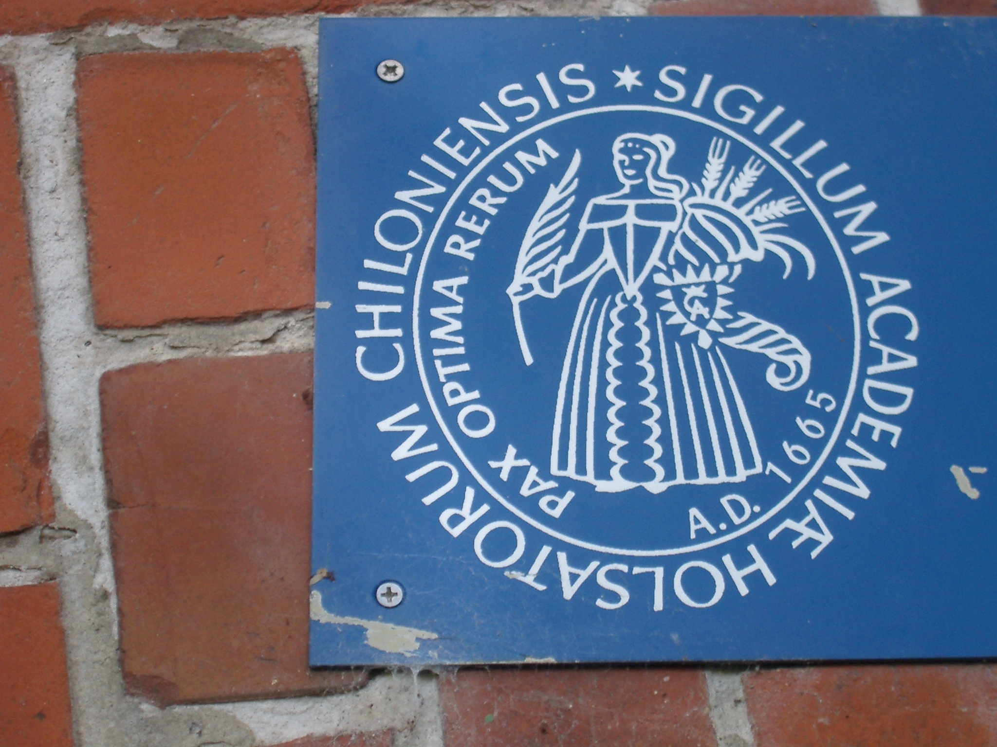 Sign of Academia Holsataorum in Kiel.